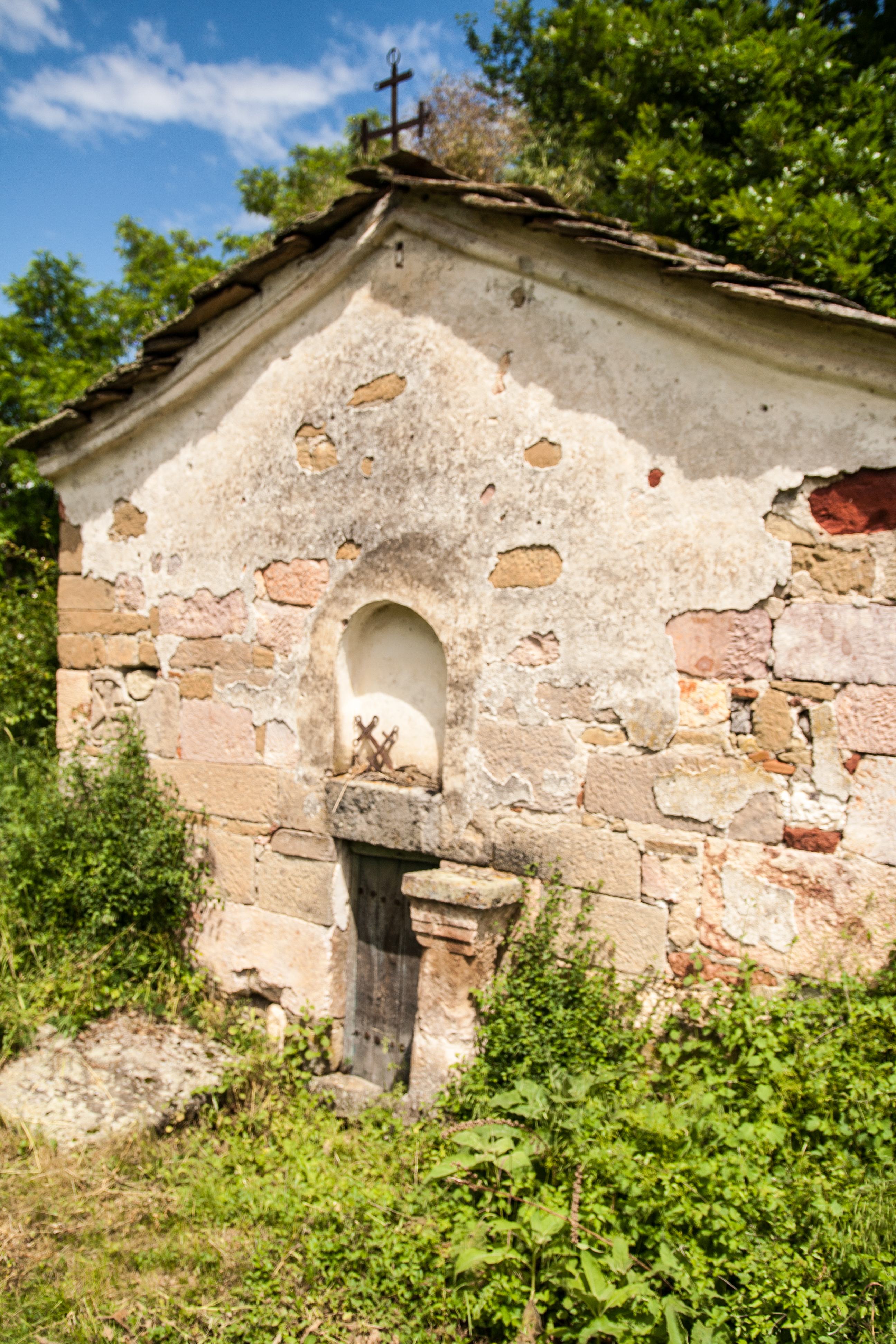 Old part of the St. Nicholas Church in Šopsko Rudare